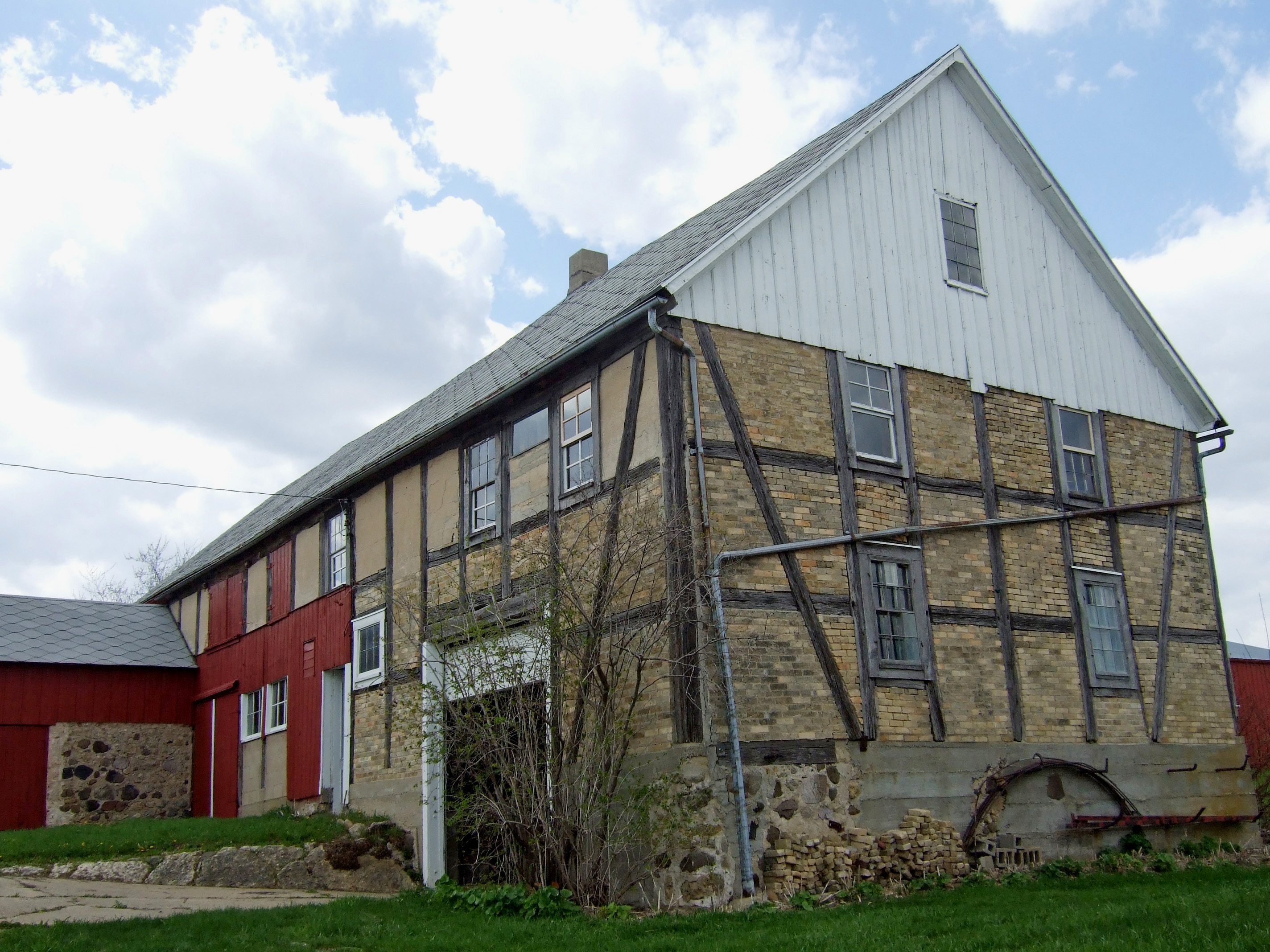 Housebarn in Emmet, Wisconsin, a few miles north of Watertown. Built ca. 1850 for Friedrich Kliese, an immigrant from Silesia, it is now owned by the Langholff family. Featuring a "schwarze Küche" ("black kitchen" or smokehouse), it is Wisconsin's only half-timbered structure built by German immigrants that accommodates both a barn and a residence under one roof. It is listed in the National Register of Historic Places. For additional information, see .